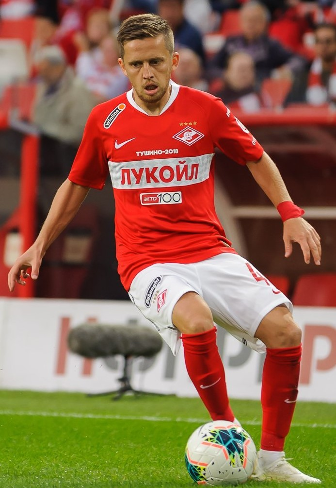 Zhano Ananidze with FC Spartak Moscow in a game against PFC Sochi